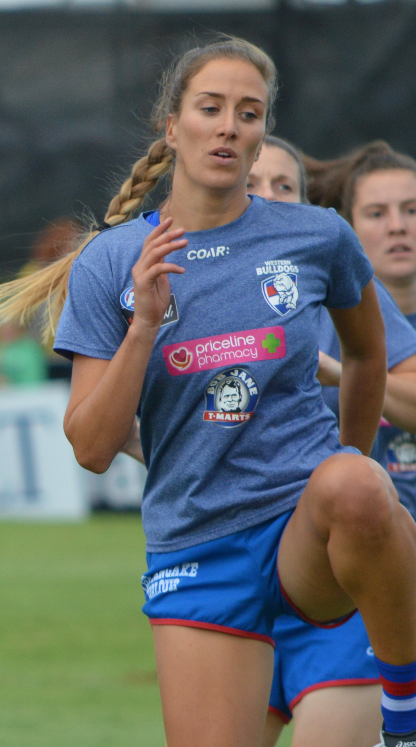 Lisa Williams during the round 3, 2017 AFL Women's match between the Western Bulldogs and Melbourne.